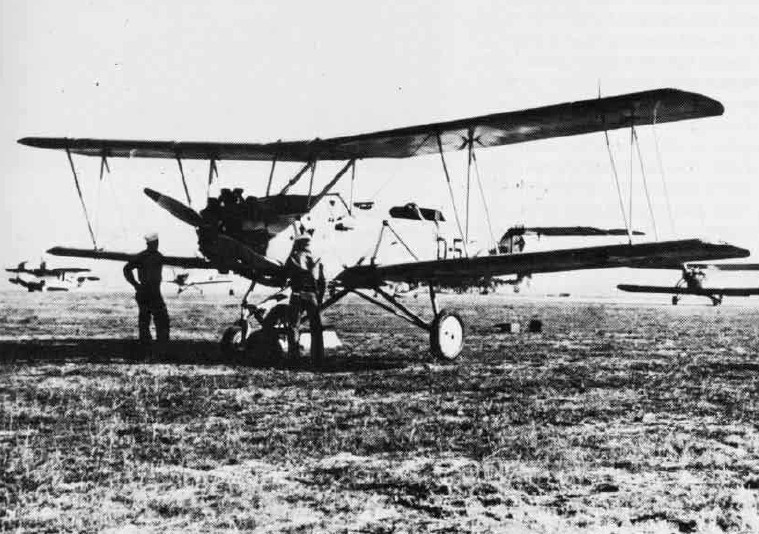 A U.S. Navy Curtiss N2C-2 Fledgling converted into a target drone at the Naval Aircraft Factory, Philadelphia, Pennsylvania (USA), 1938/39. Note that the aircraft has been fitted with a tricycle landing gear.